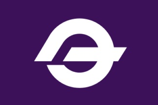 Flag of Tanohata Iwate